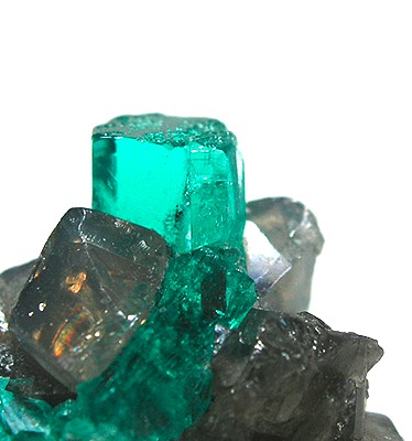 Beryl, Calcite Locality: Concorcio Mine, Boyaca, Colombia Size: thumbnail, 1.7 x 1.5 x 0.9 cm Emerald with Calcite A super sharp specimen, with the deepest green color you can ask for in an emerald and gemminess to boot...I think that is obvious from the photos! The gem crystal is 1 cm tall and perched nicely in matrix of crystallized calcite to make for a very balanced thumbnail specimen. Small, but of the utmost quality!